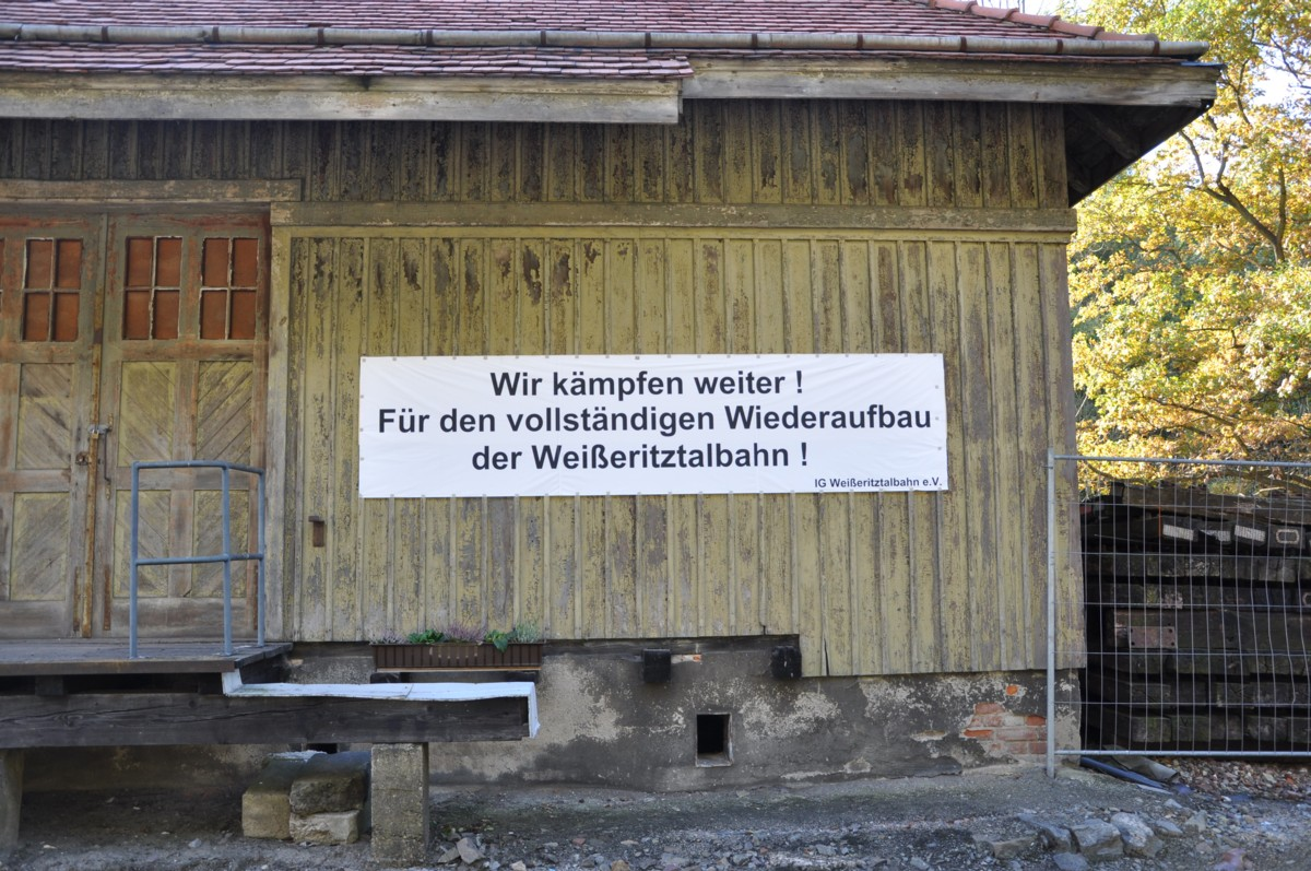 station Seifersdorf, Weißeritztalbahn, Saxony, Germany